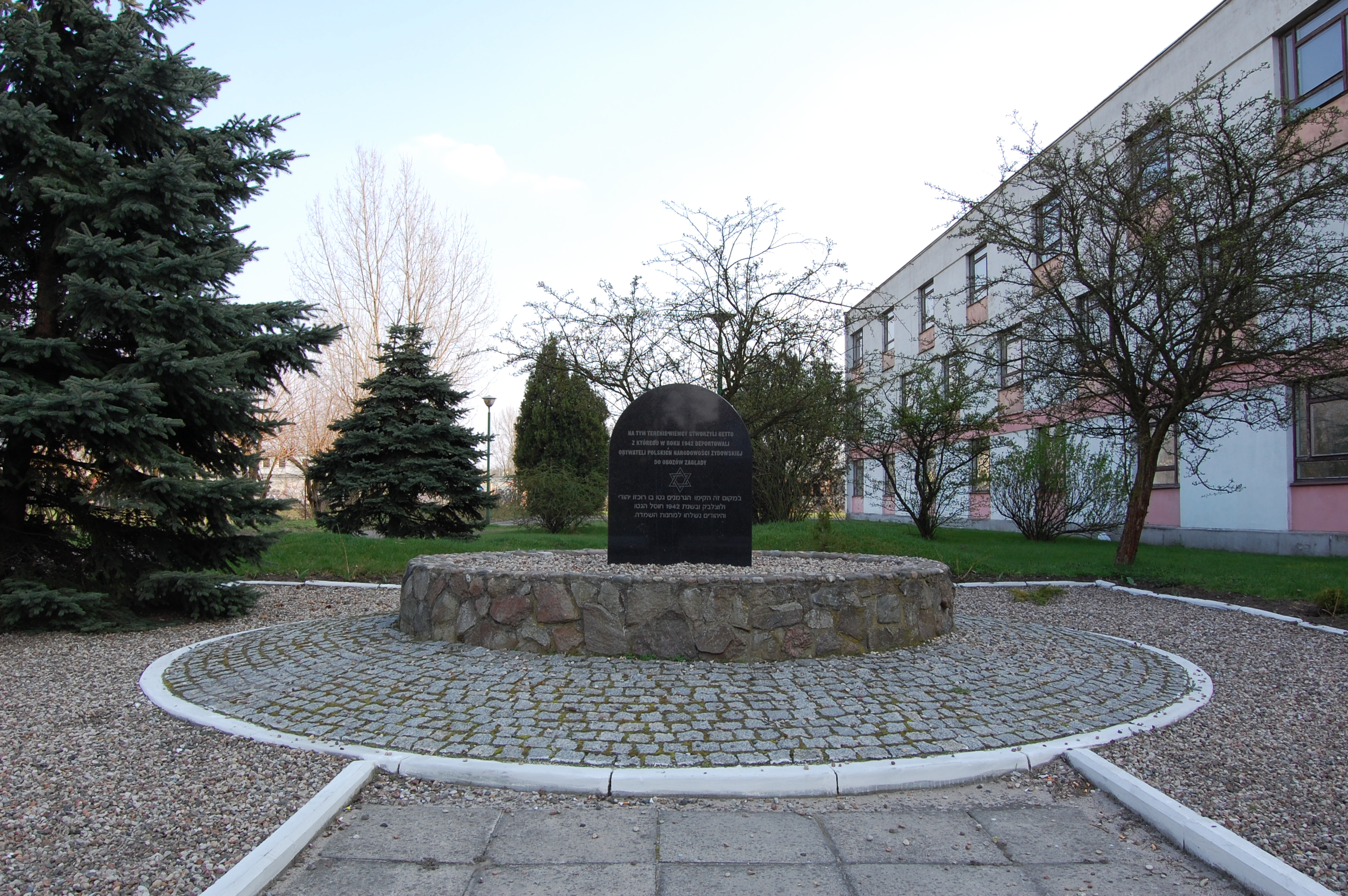 Wloclawek Ghetto memorial